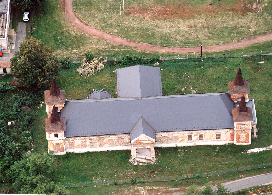 Castle - Szirmabesenyő - Hungary - Europe